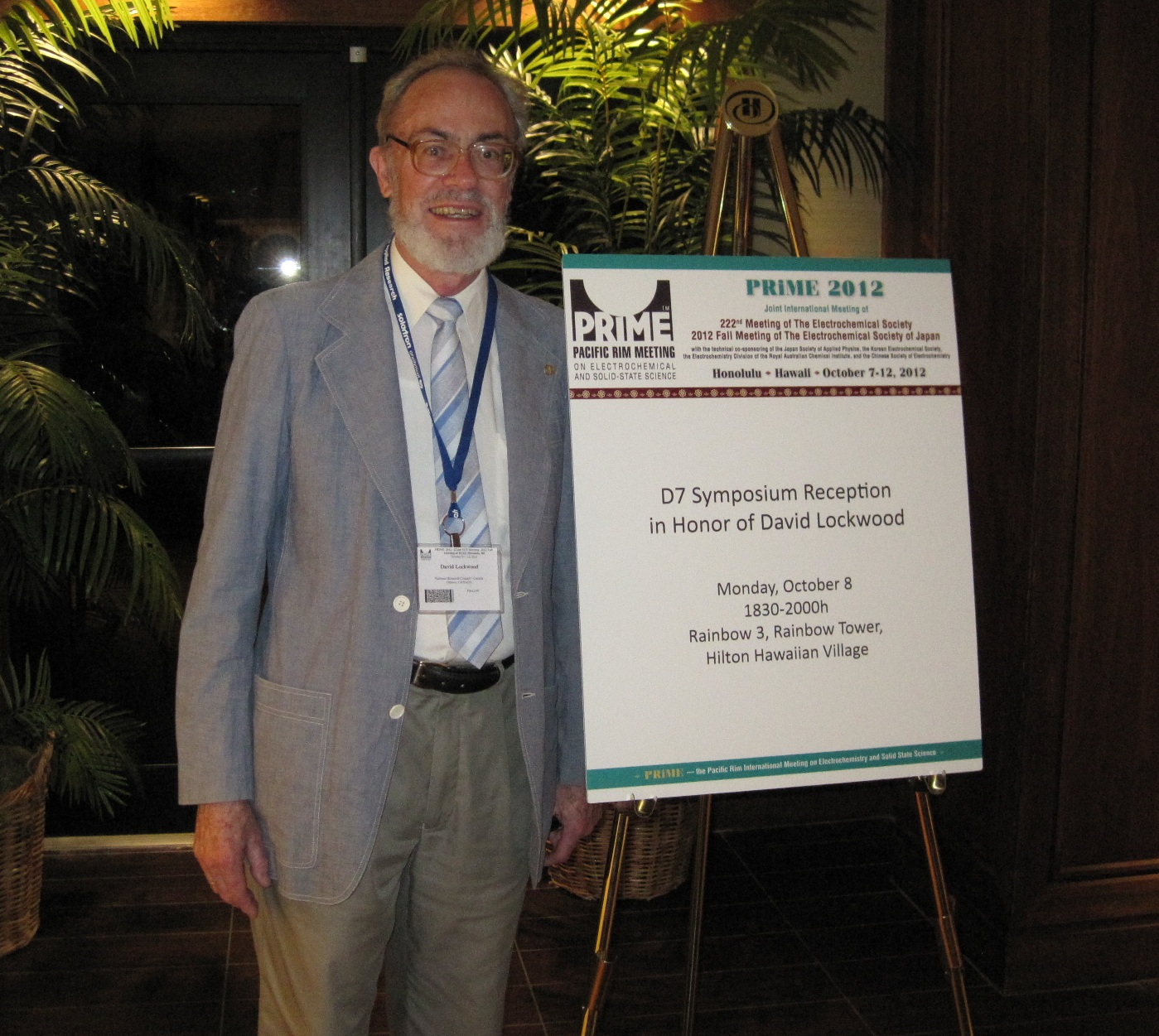 Scientist, award